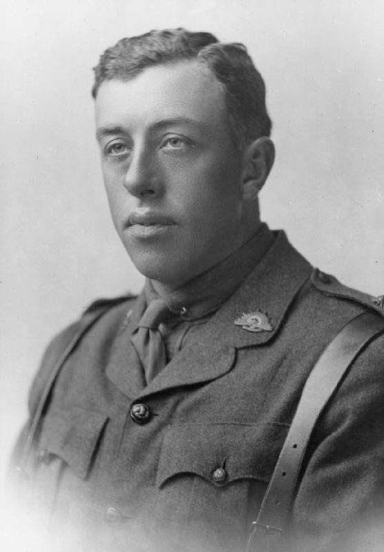 12 Battalion, Australian Infantry, Australian Imperial Force Lt Butler of Hobart, Tasmania was wounded on 22 August 1916 at Mouquet Farm during the Battle of the Somme. He died the following day, aged 35. He is buried at Puchevillers British Cemetery. Faces of the First World War Find out more about this First World War Centenary project at This image is from IWM Collections.